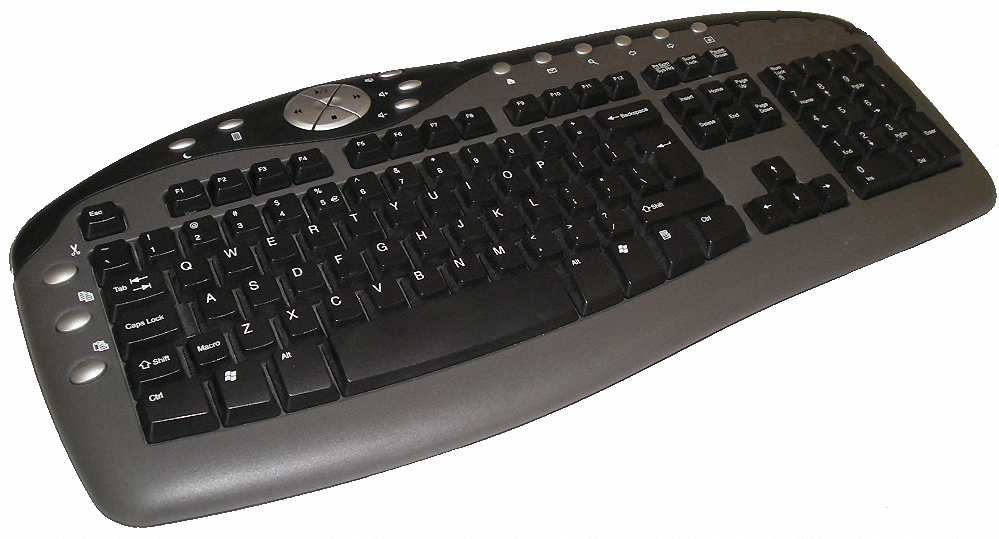 Chicony Wireless keyboard, model number: KBR0108 (FCCID: E8HKBR0108)